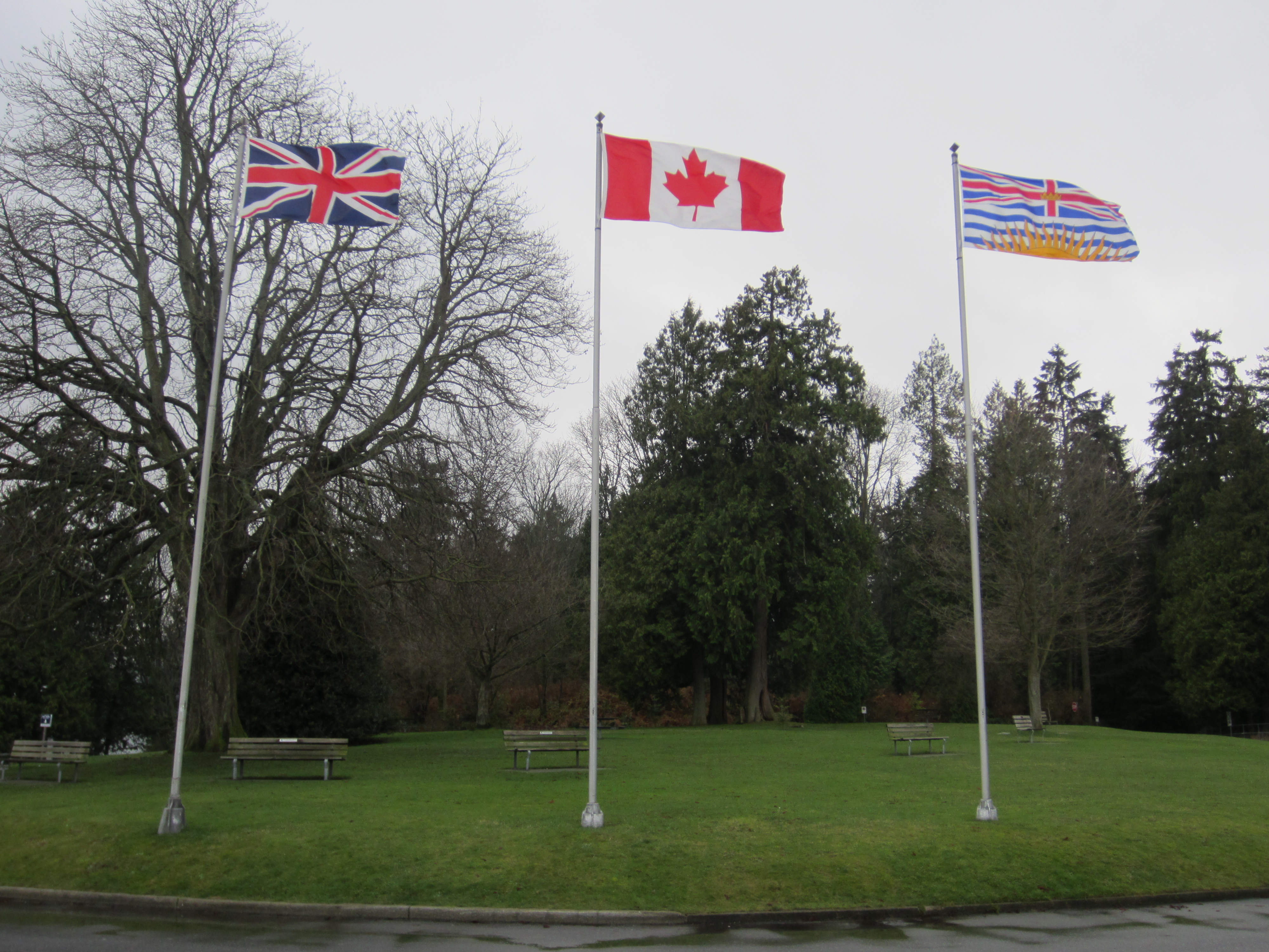 Brockton Point, Stanley Park, Vancouver, British Columbia (2012)